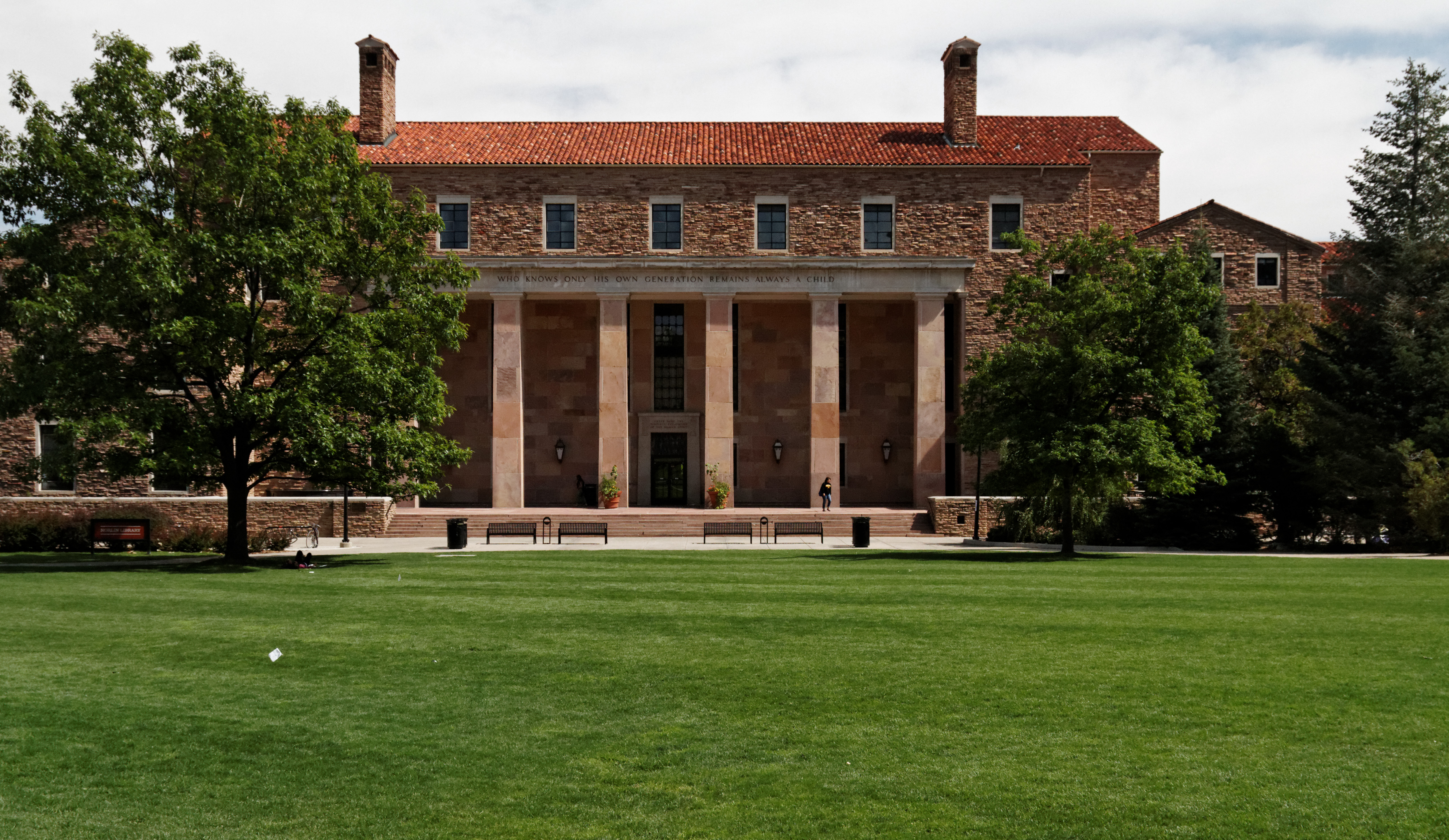 Norlin Library in the Norlin Quadrangle Historic District